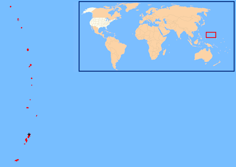 The Catholic Diocese of Chalan Kanoa encompasses the entire Commonwealth of the Northern Mariana Islands, USA.